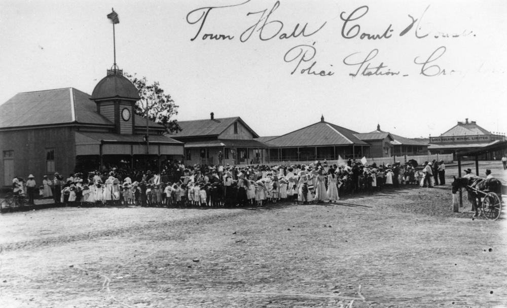 Celebrations in the street in front of the Town Hall, Croydon, ca. 1901. Croydon is located in the heart of the Gulf Savannah, in north west Queensland. When first settled in the 1880s Croydon was a large pastoral holding until gold was discovered in 1885. By 1887 the town's population had reached around 7,000 and during its heyday, Croydon was the fourth largest town in the colony of Queensland. A large crowd is gathered in the main street, possibly to celebrate Federation. Buildings include the Town Hall, Court House and Police Station. The Queensland Mining building is at the bottom of the street.